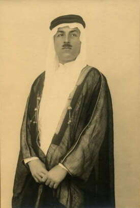 Emir Adel Arslan, brother of Emir Shakib, Ottoman officer, Deputy Governor of Aley, Deputy for Lattakia, and nationalist leader in Greater Syria – Portrait taken in Baghdad in 1935.